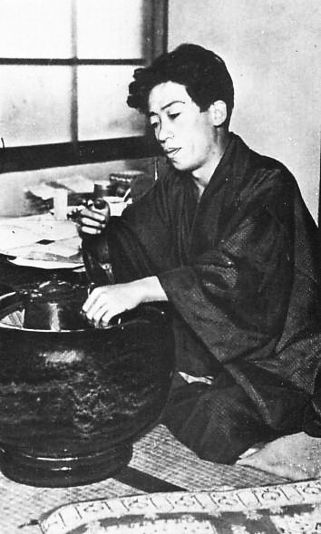 Takiji Kobayashi